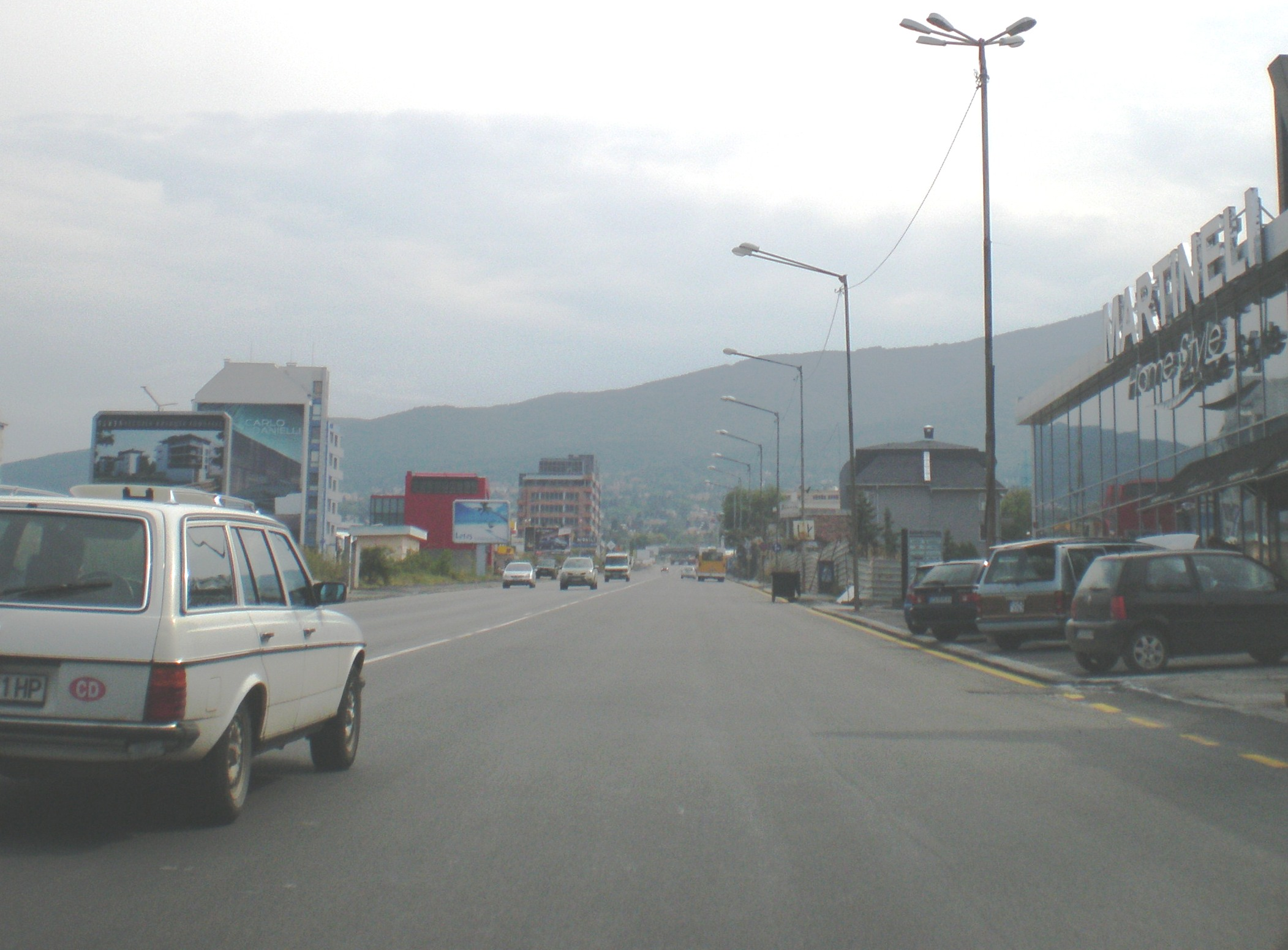 Simeonovsko shose - Sofia, Bulgaria